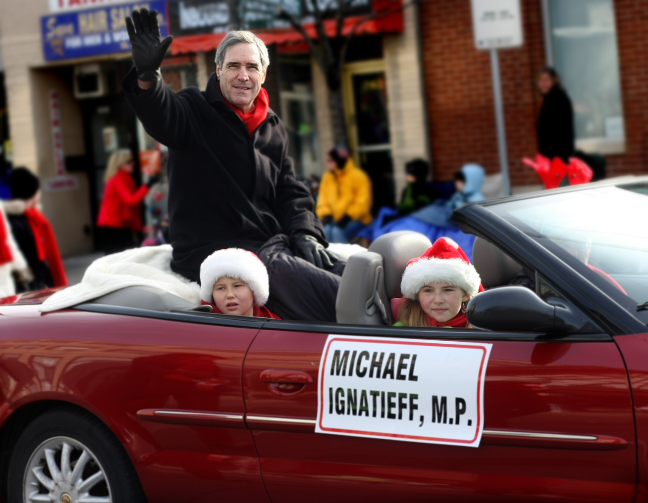 Michael Ignatieff at the Lakeshore Santa Claus Parade with his two children